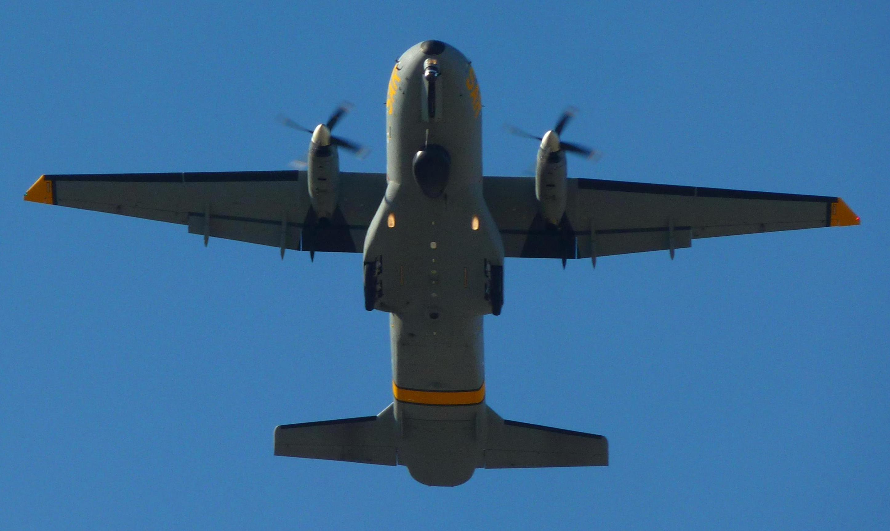 CN-235 VIGMA (Maritime Patrol/SAR) of the Spanish Air Force.